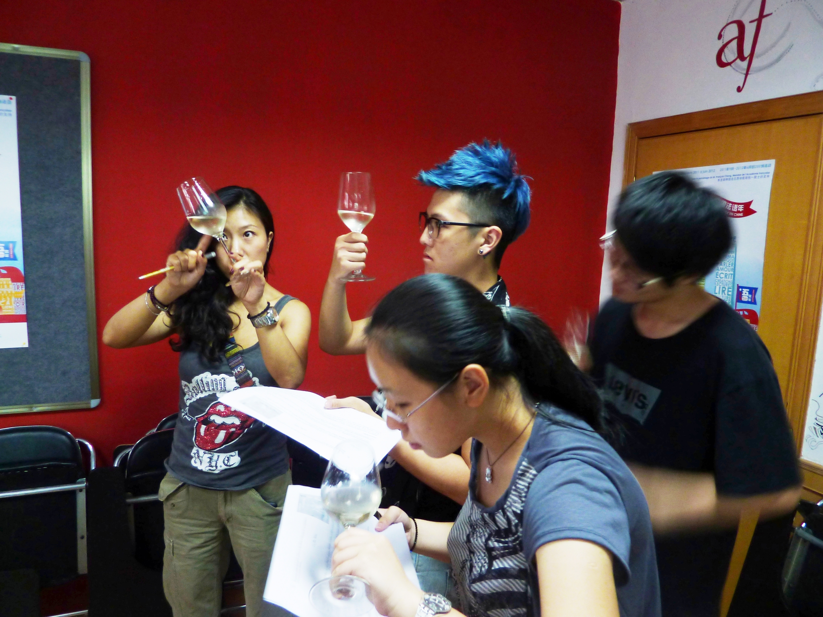 Floc de Gascogne à l'Alliance française de Wuhan (